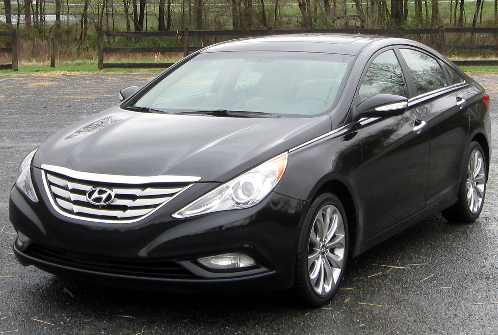 2011 Hyundai Sonata Limited 2.0T photographed in Highland, Maryland, USA.